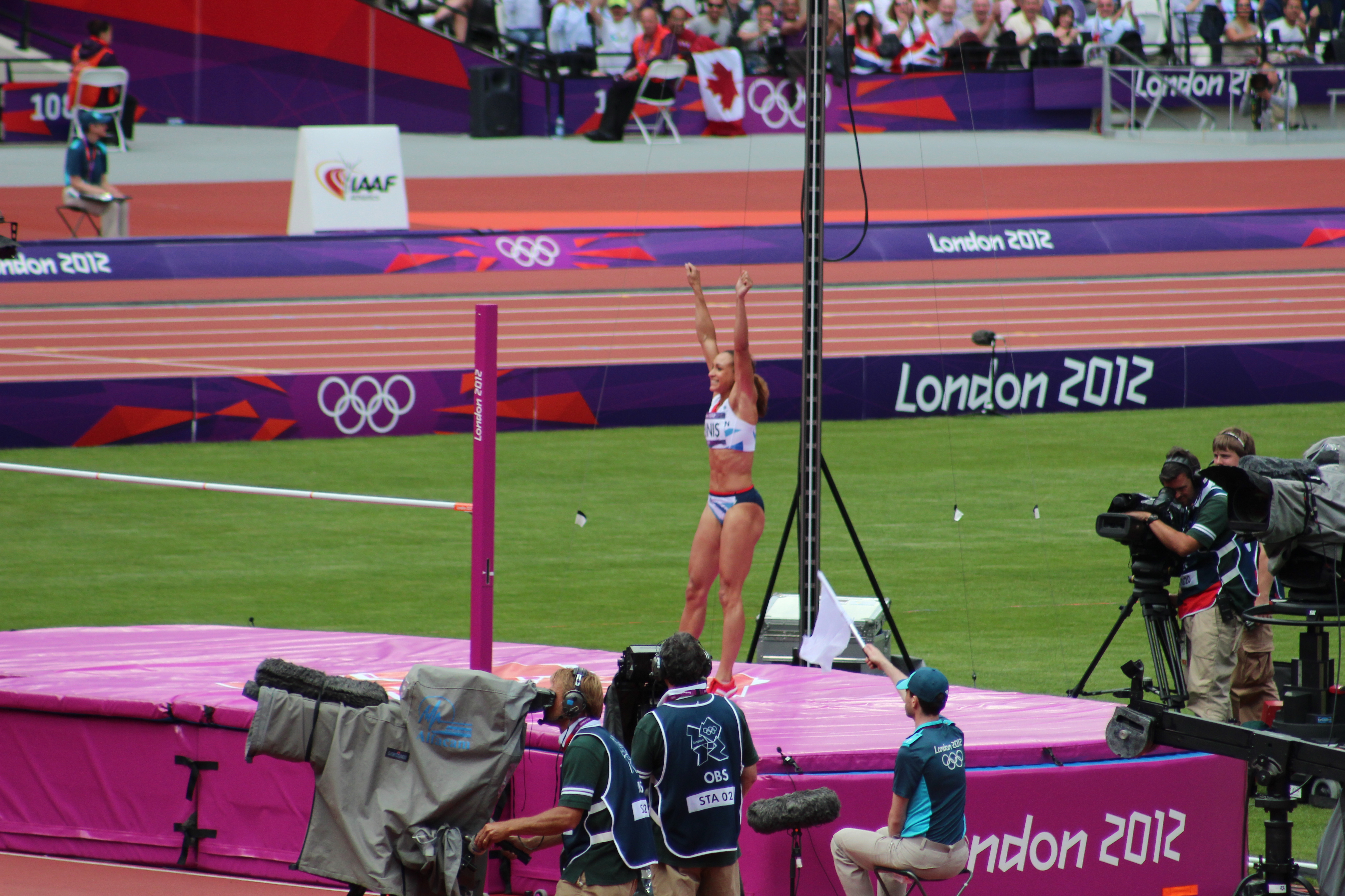 London Olympics 2012 - Friday August 3rd in the Olympic Stadium. Women's heptathlon, Jessica Ennis